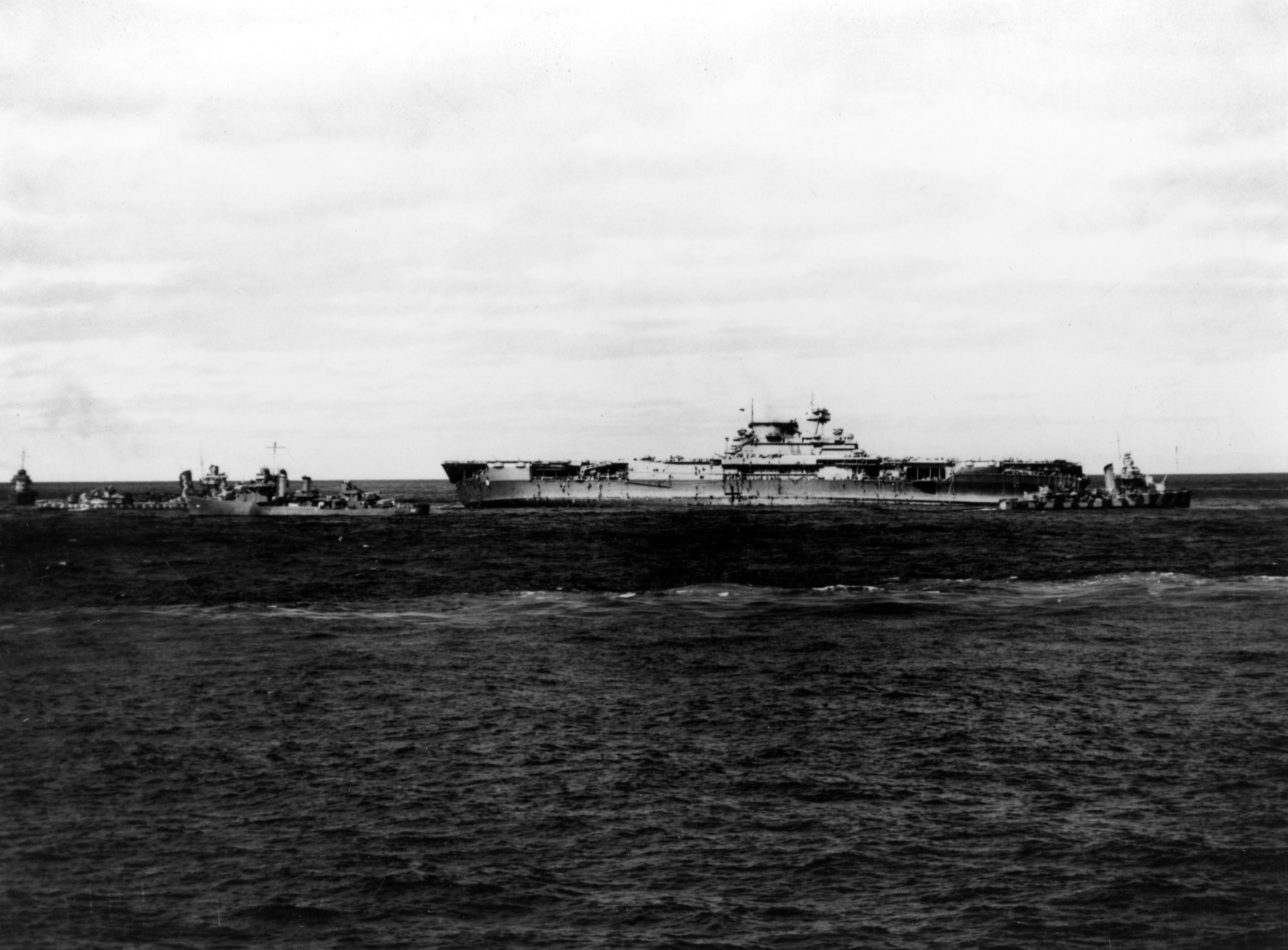 The U.S. Navy aircraft carrier USS Yorktown (CV-5) being abandoned by her crew after she was hit by two Japanese Type 91 aerial torpedoes, 4 June 1942. The following destroyers are standing by (l-r): USS Benham (DD-397), USS Russell (DD-414), USS Balch (DD-363) and USS Anderson (DD-411).